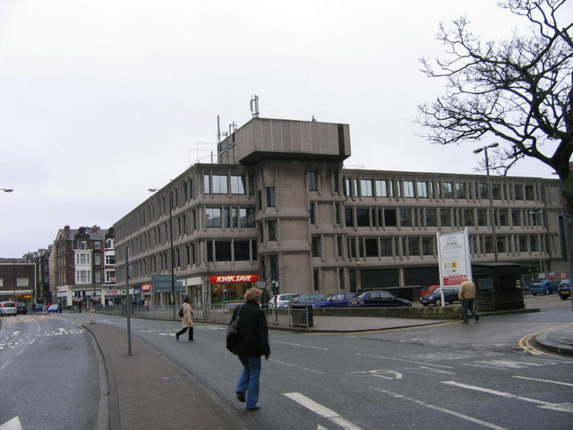 Pavilion House, Scarborough. This Modernist building is Pavilion House. It houses private offices and the County Court.